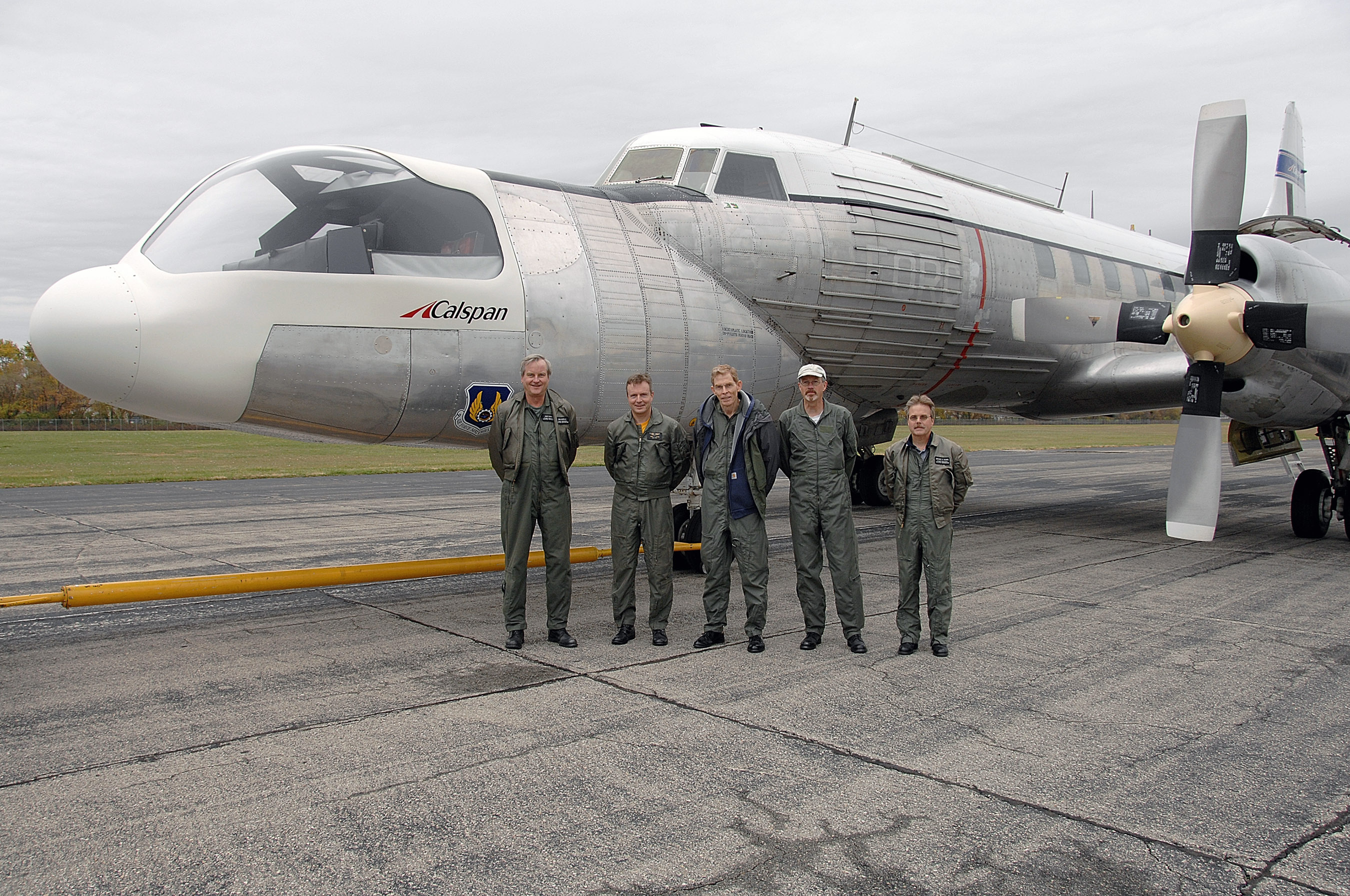 The crew for the final flight of the U.S. Air Force C-131 known as the Total-In-Flight Simulator pose with the aircraft Nov. 7 near a restoration hangar at Wright-Patterson Air Force Base, Ohio. The unusual aircraft flew some 2,500 research flights and contributed to the advancement of many of the flight technologies integral to today's fleet. Prior to its retirement, the TIFS, a 1955 Convair, was the oldest operating aircraft in the Air Force inventory. (U.S. Air Force photo/Ben Strasser)